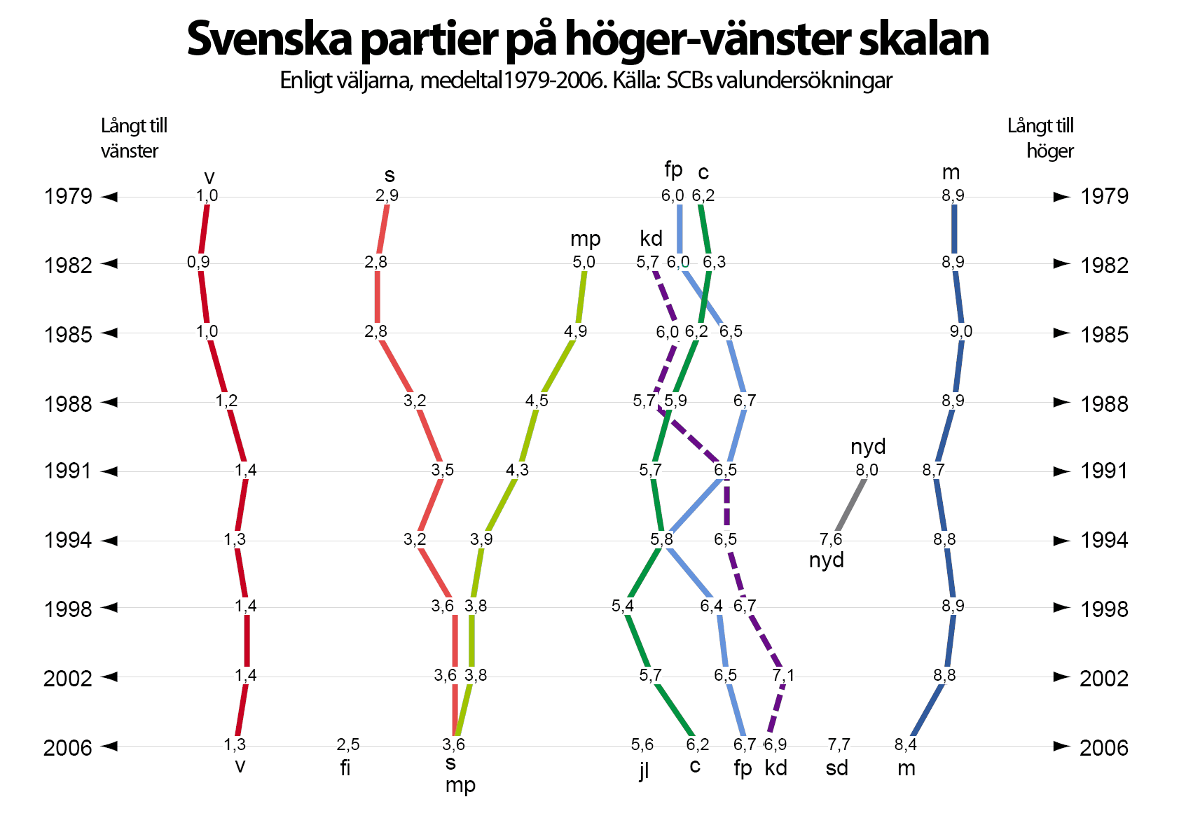 Swedish political parties on the left-right scale, according to voter surveys 1979-2006